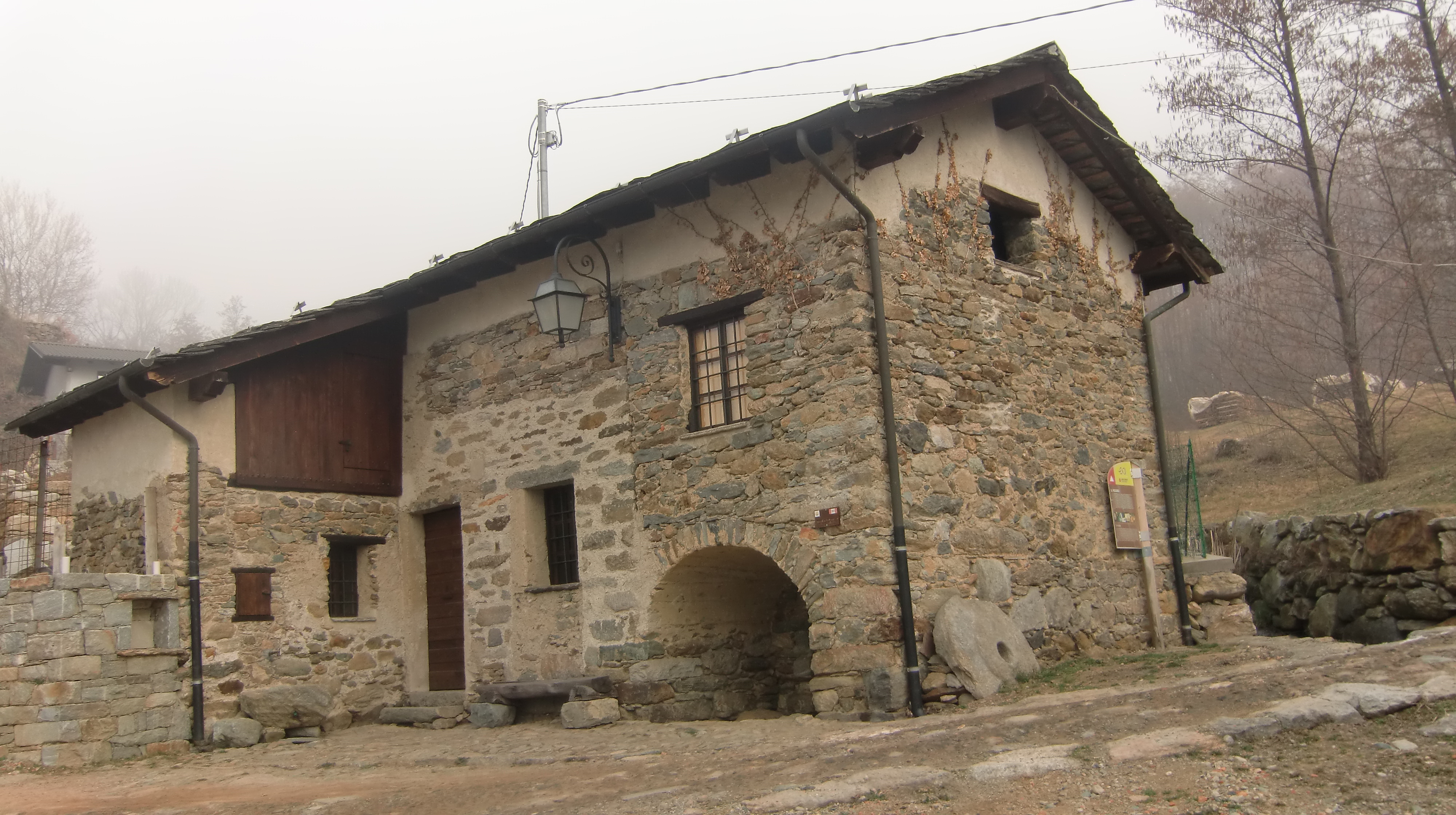 Nomaglio, old mill (XVIII century)